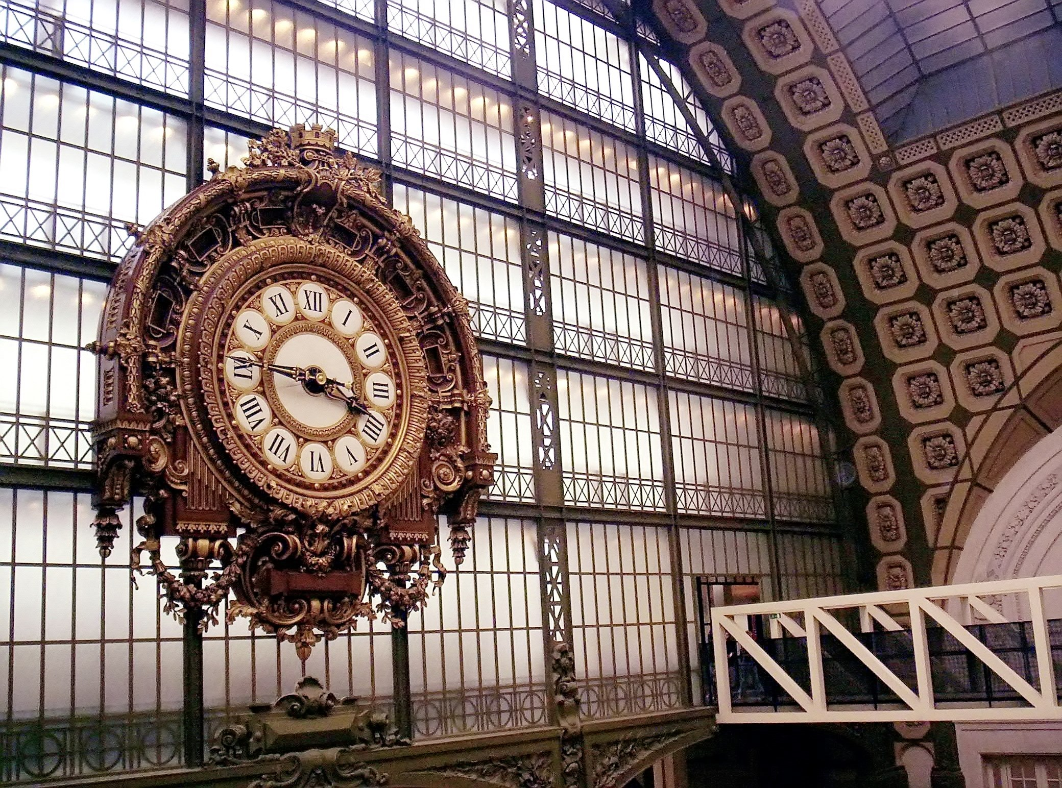 Musée d'Orsay